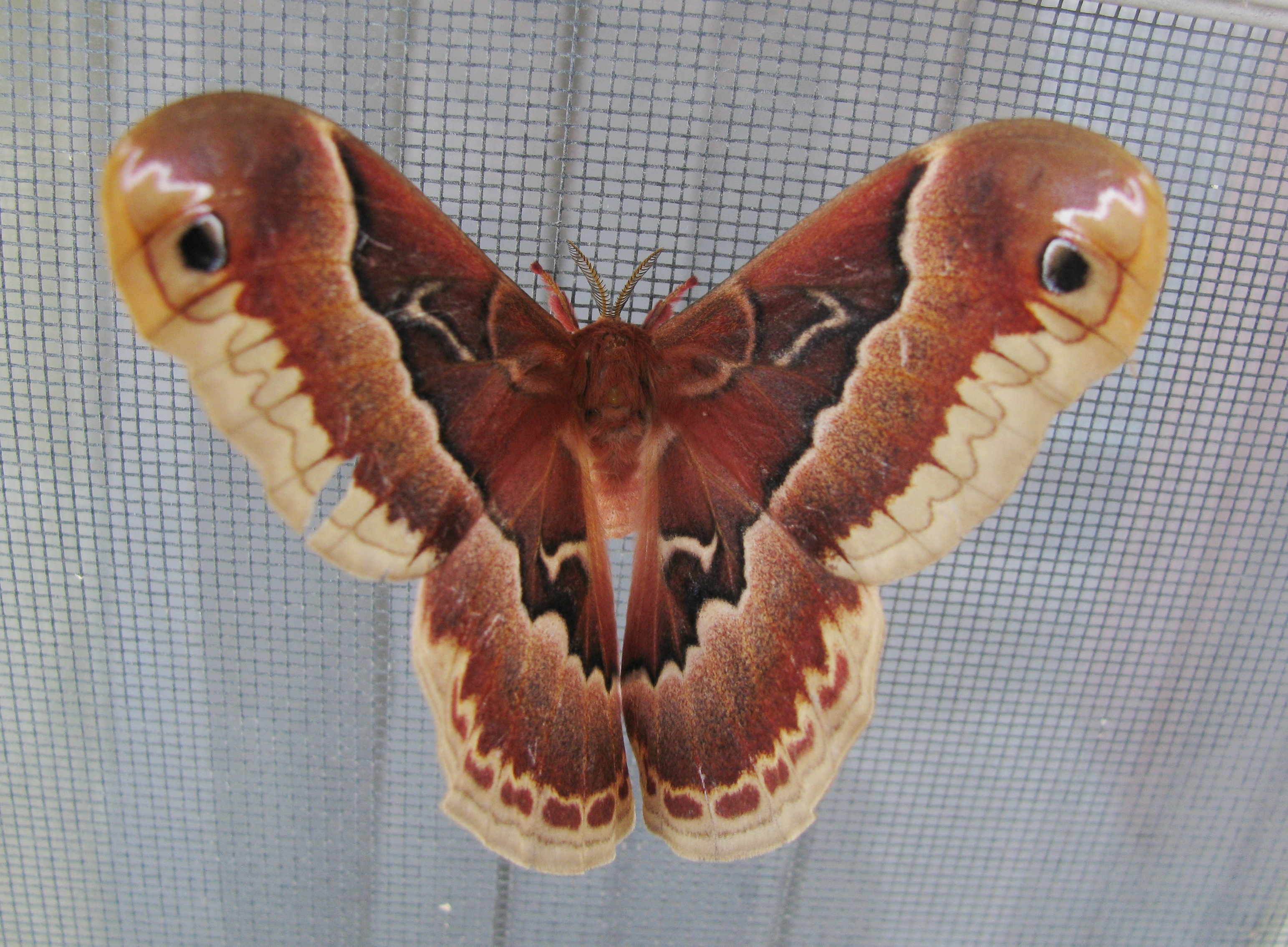 This photo shows a female promethea moth (Callosamia promethia) perched on a window screen. It was taken in Mortons Gap, KY.